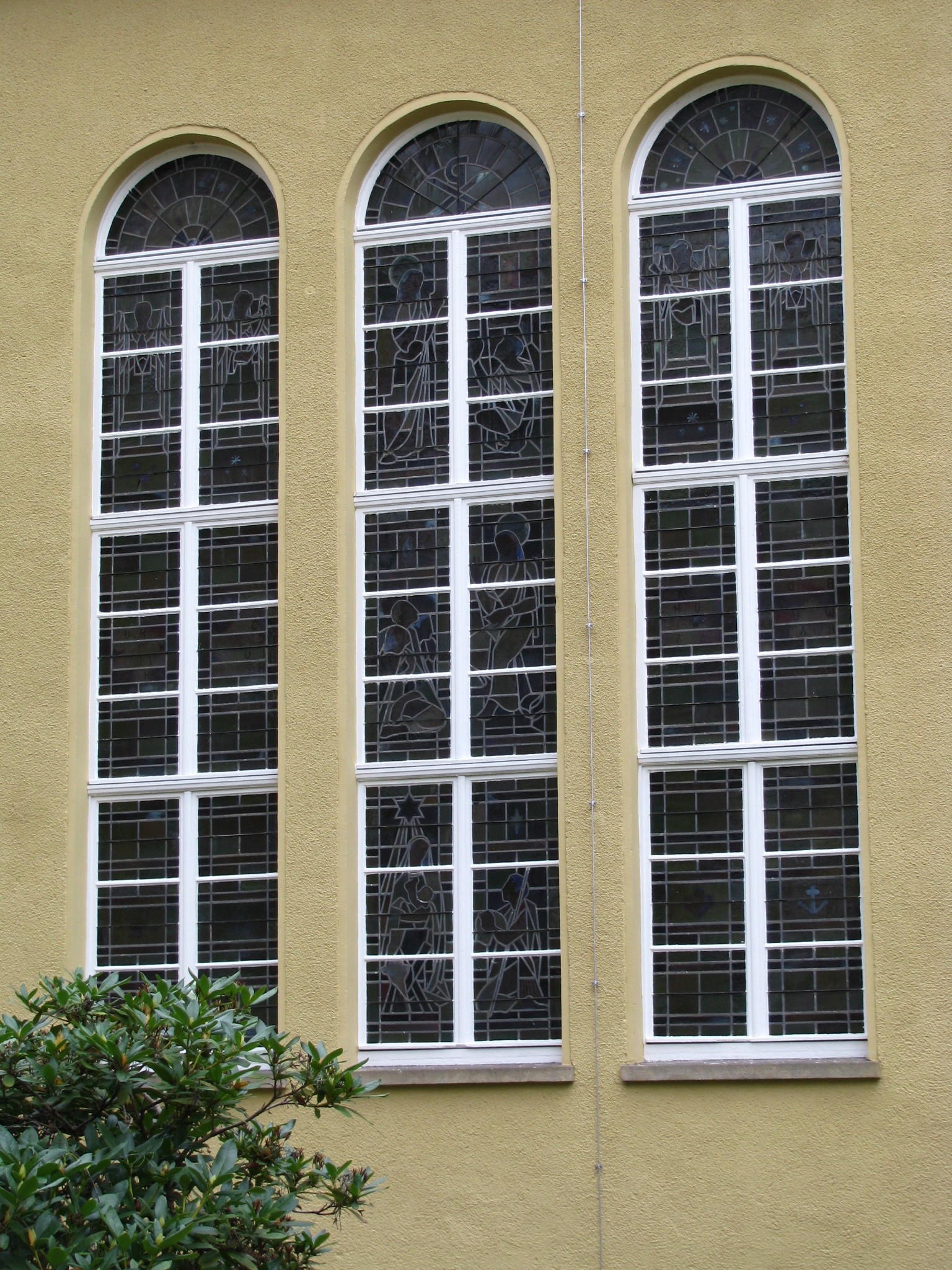 The Hoffnungskirche (Church of Hope) in Dresden-Löbtau